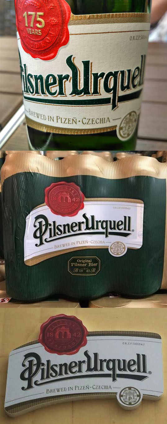 Bottle label, cans pack and logo on the wall of the brewery in Pilsen, Czechia